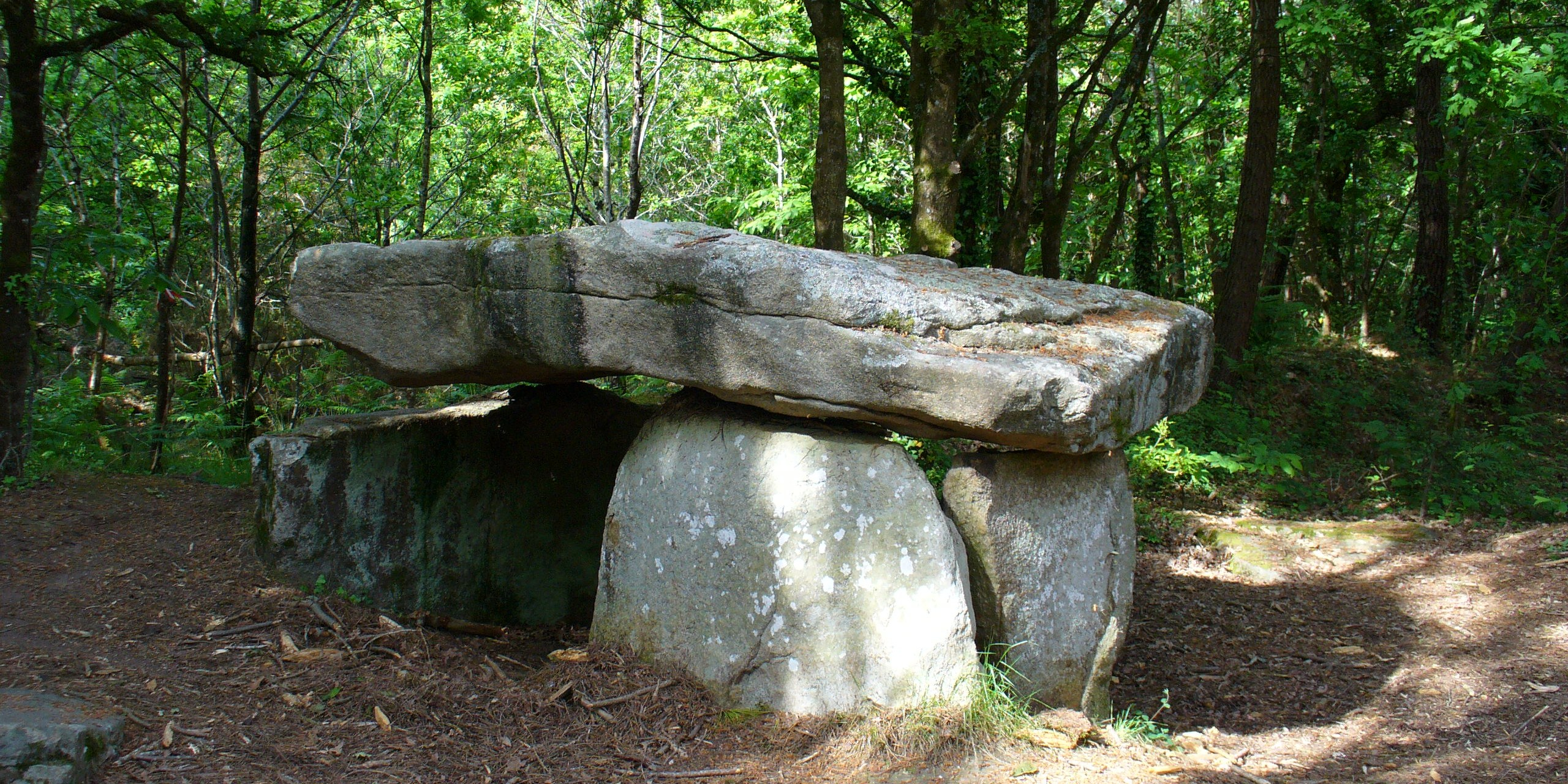 Riantec, Dolmen de Kerporel